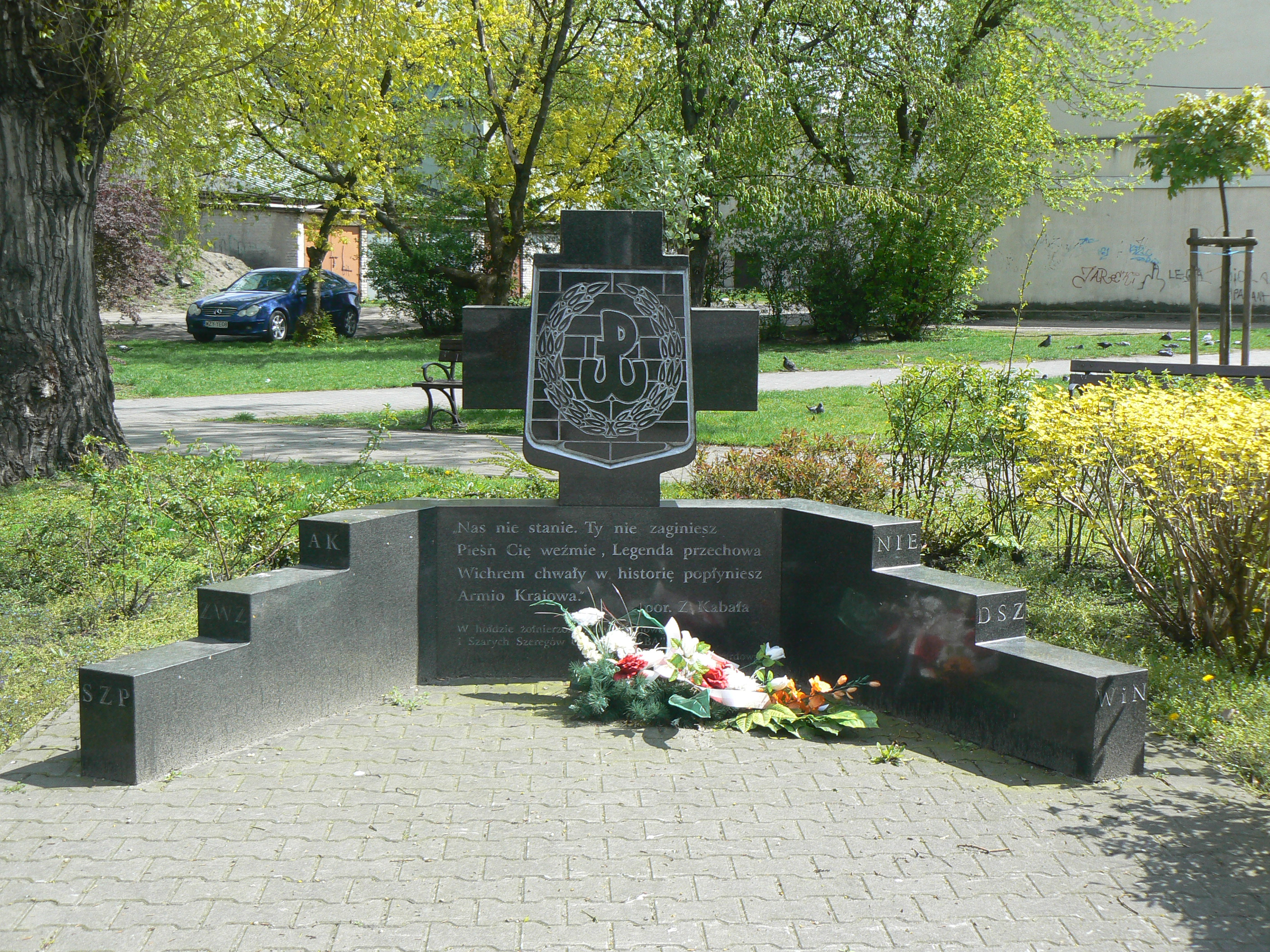 The Memorial to the Armia Krajowa soldiers in Żyrardów